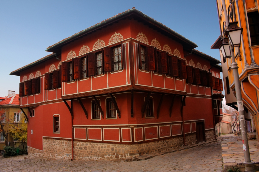 The Old Town in Plovdiv